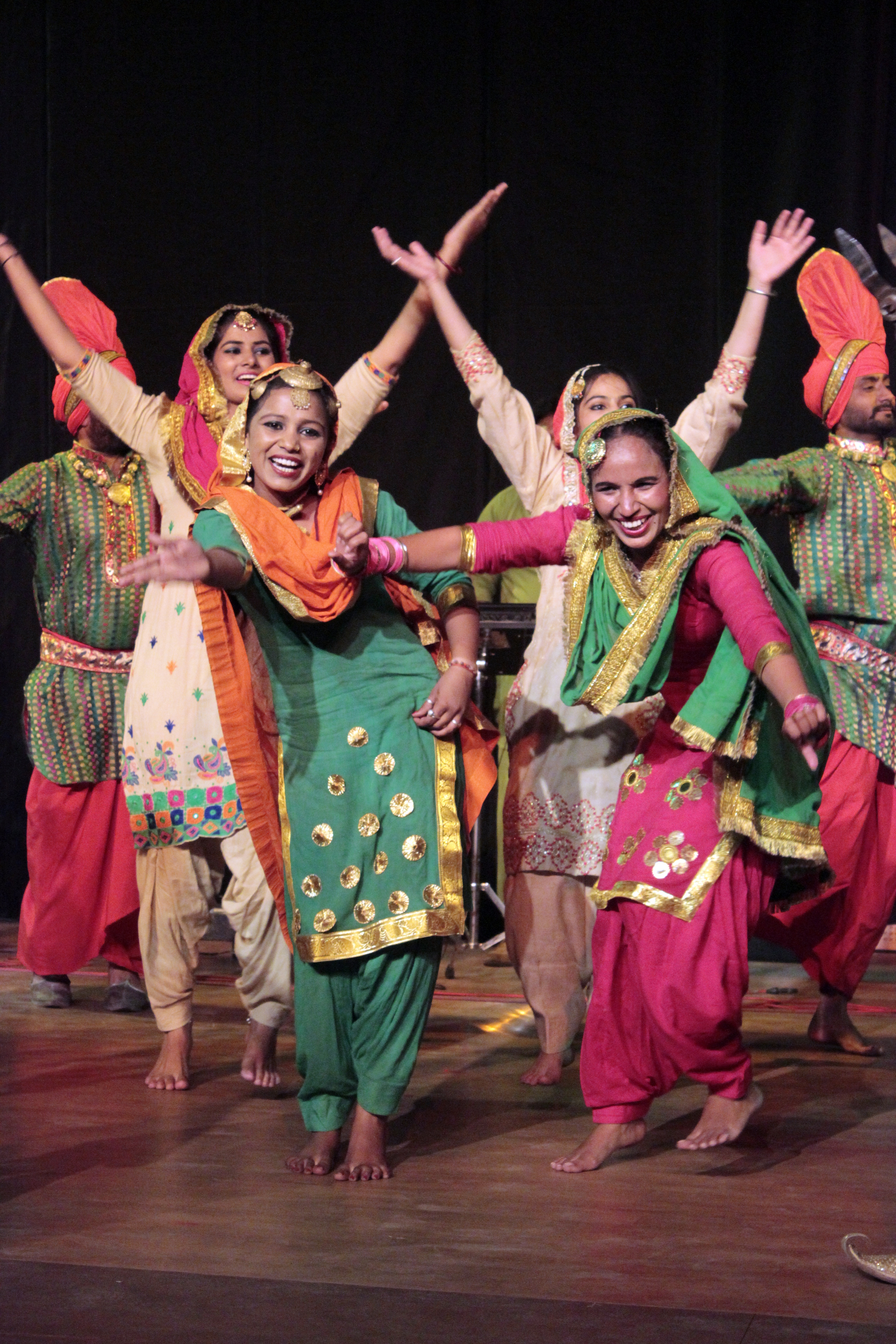 Punjabi Folk dance Gaidda Boliya and Bhangara at Bhopal